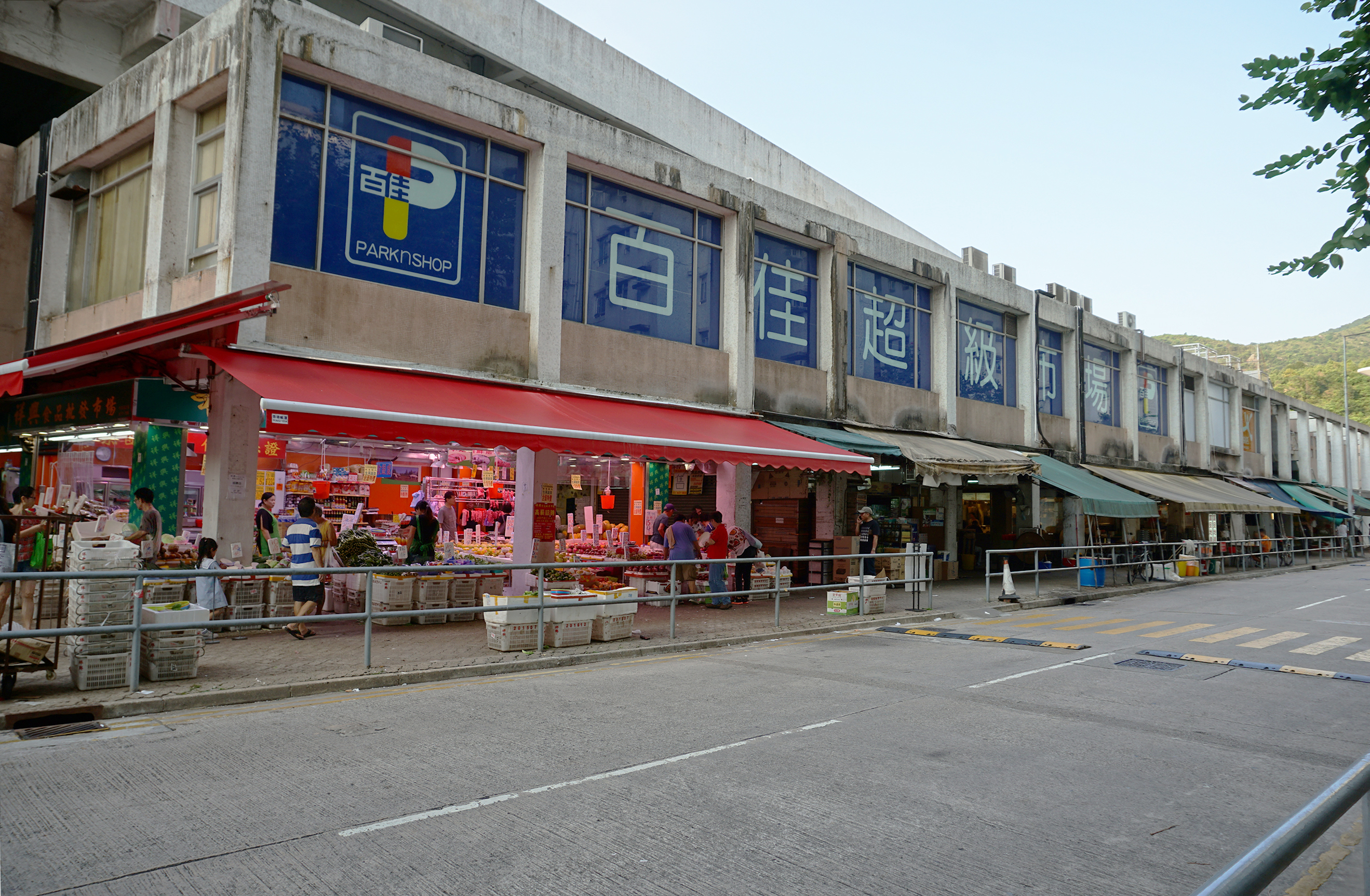 Chevalier Garden Arcade in Tai Shui Hang, Hong Kong.